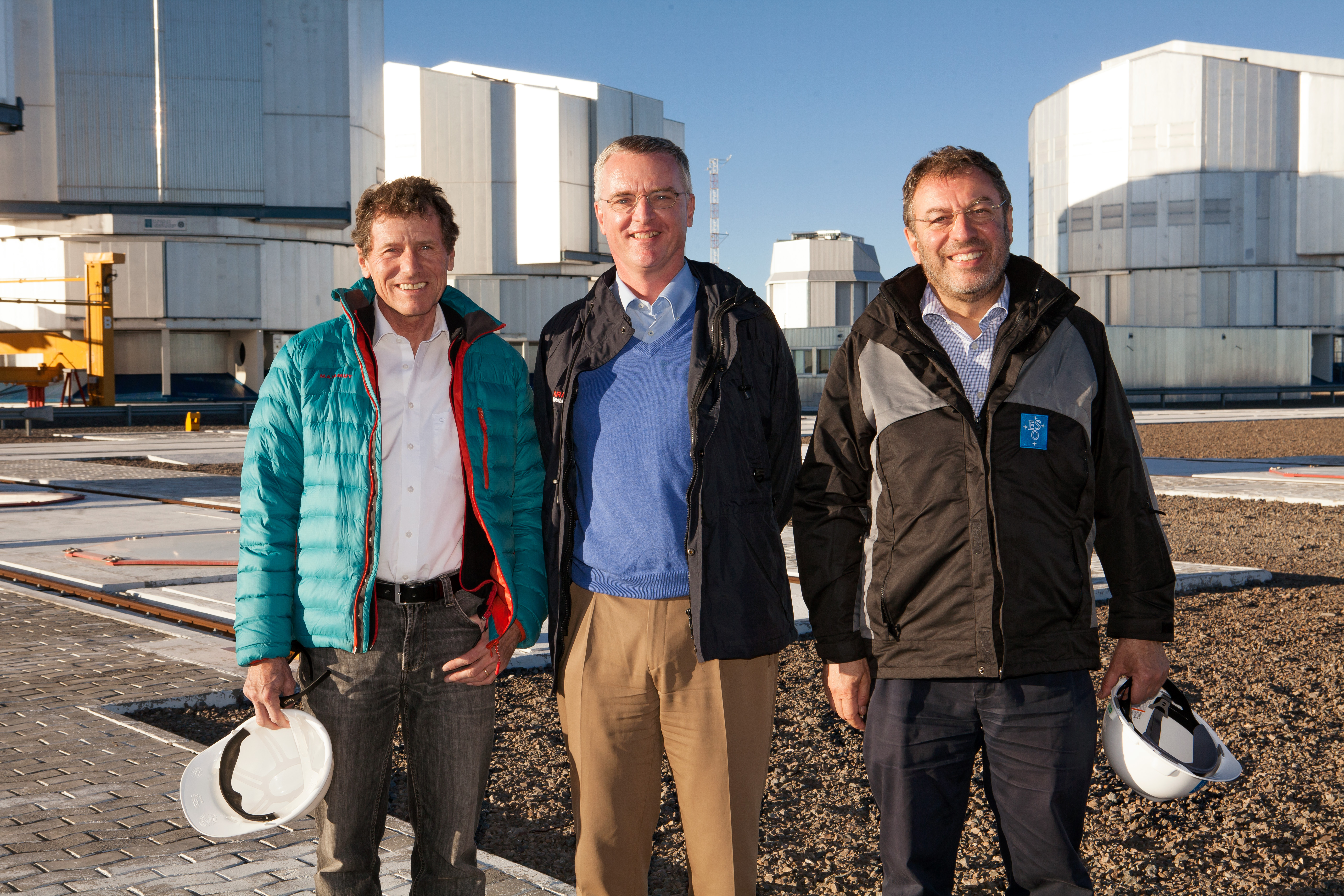 The Federal Minister for Science and Research of Austria, Karlheinz Töchterle, and the Minister for Science and Education of Portugal, Nuno Crato, visited ESO’s Paranal Observatory on 15 March 2013, as part of their official visits to Chile. The ministers and their delegations were hosted by ESO's Director General, Tim de Zeeuw. This picture was taken on the platform of ESO’s Very Large Telescope and three of the Unit Telescope domes are visible in the background, along with the smaller dome of the VLT Survey Telescope. From left to right: the Federal Minister for Science and Research of Austria, Karlheinz Töchterle, ESO's Director General, Tim de Zeeuw, and the Minister for Science and Education of Portugal, Nuno Crato.